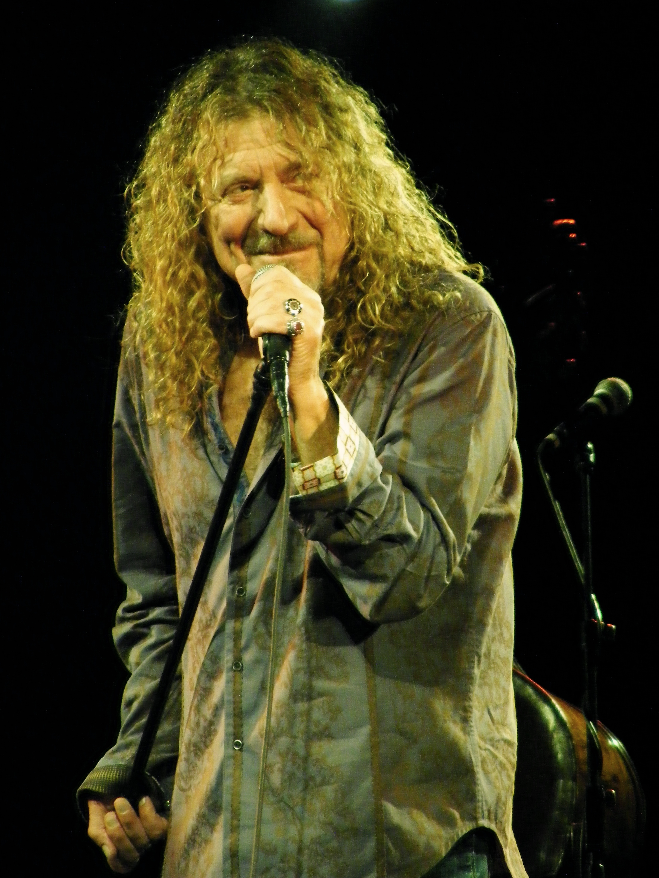 Robert Plant playing live at the Palace Theatre, Manchester, on Sunday the 31st of October 2010.